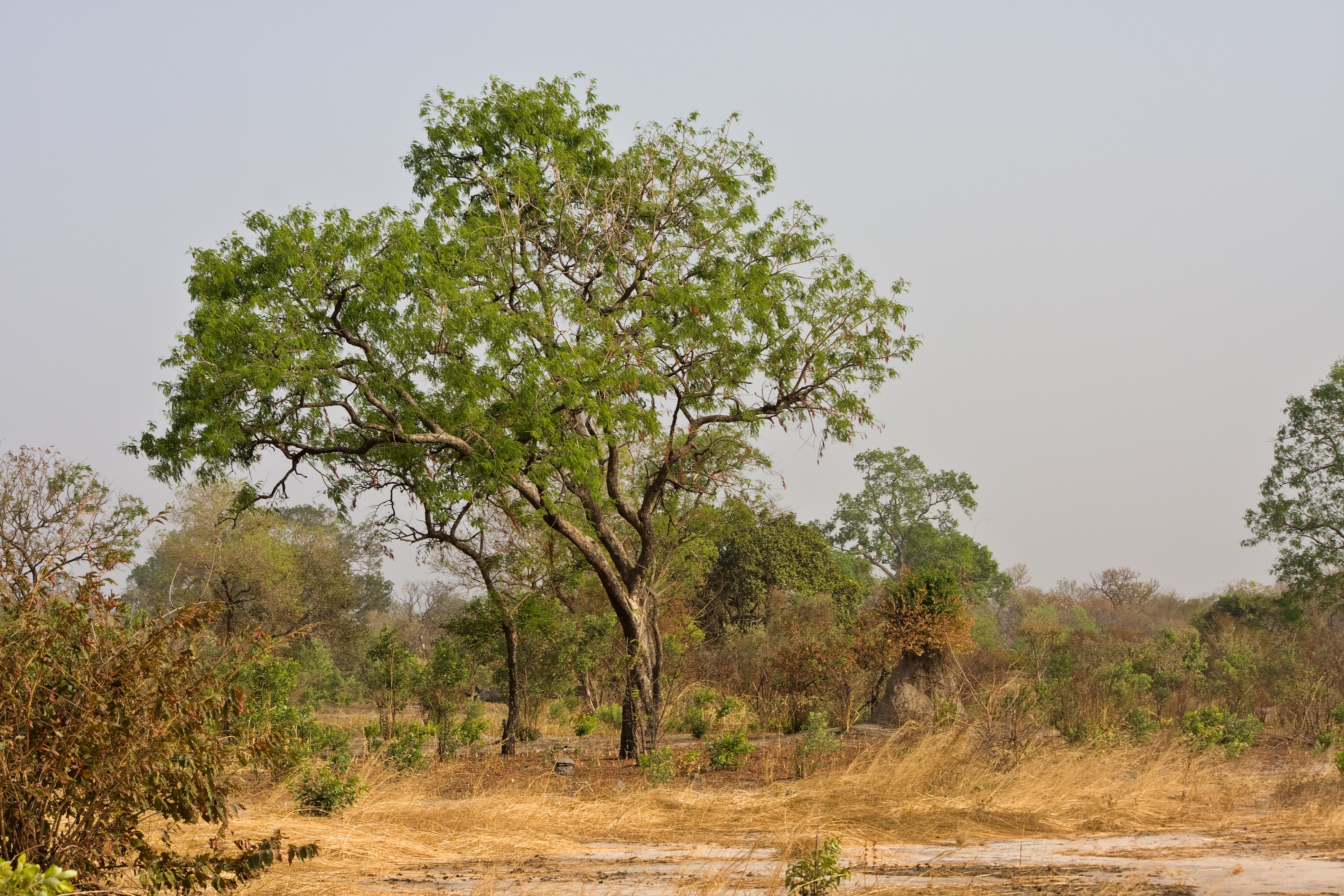 Young mahogany trees in Kiang West National Park/The Gambia. For a little kick back you get a license to cut the last mahogany trees even in the national park